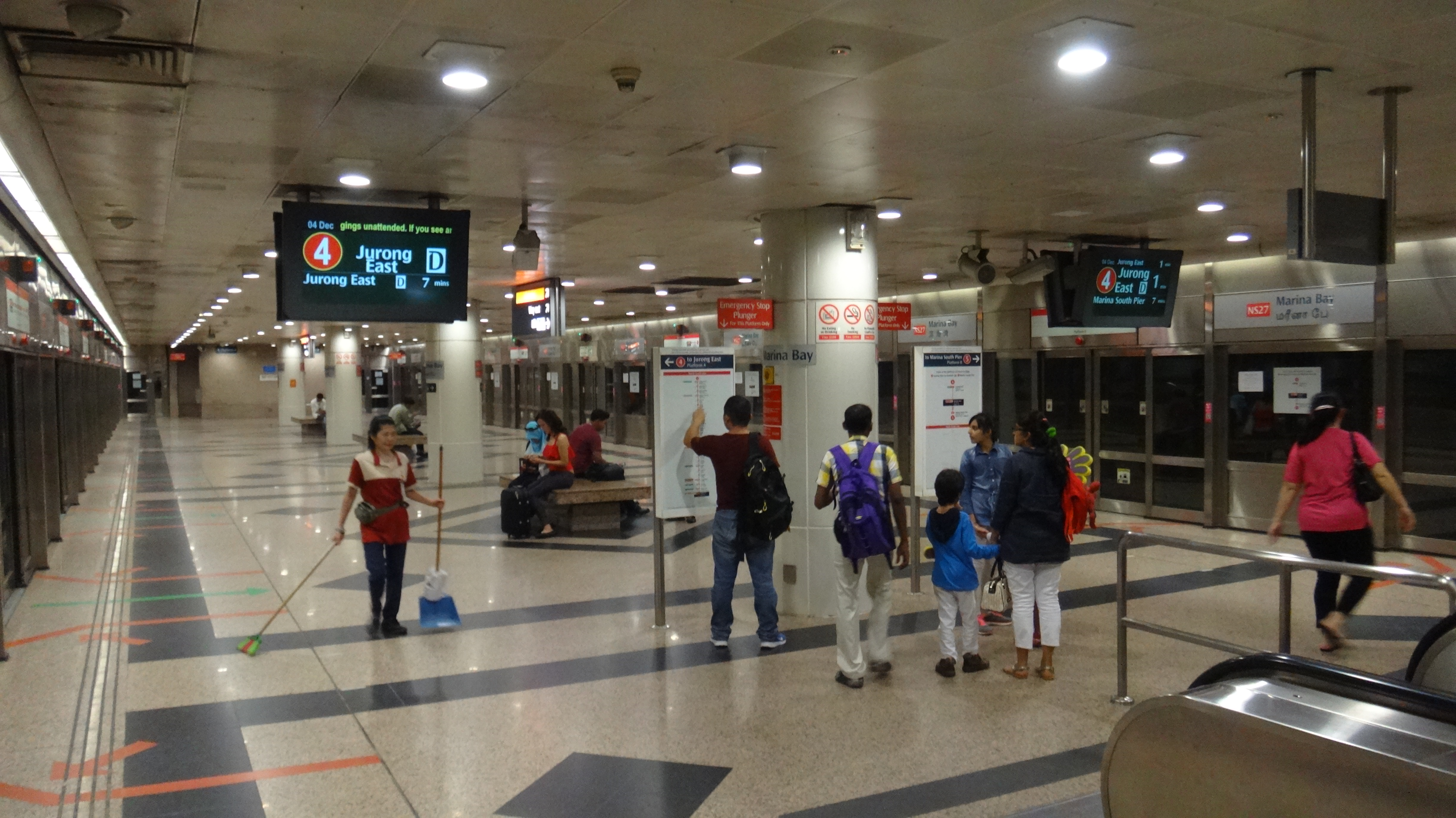 North South Line platforms 4 and 5 at Marina Bay MRT Station in Singapore